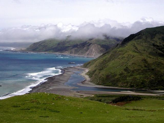 Photo of the Mattole River estuary at the Pacific Ocean.